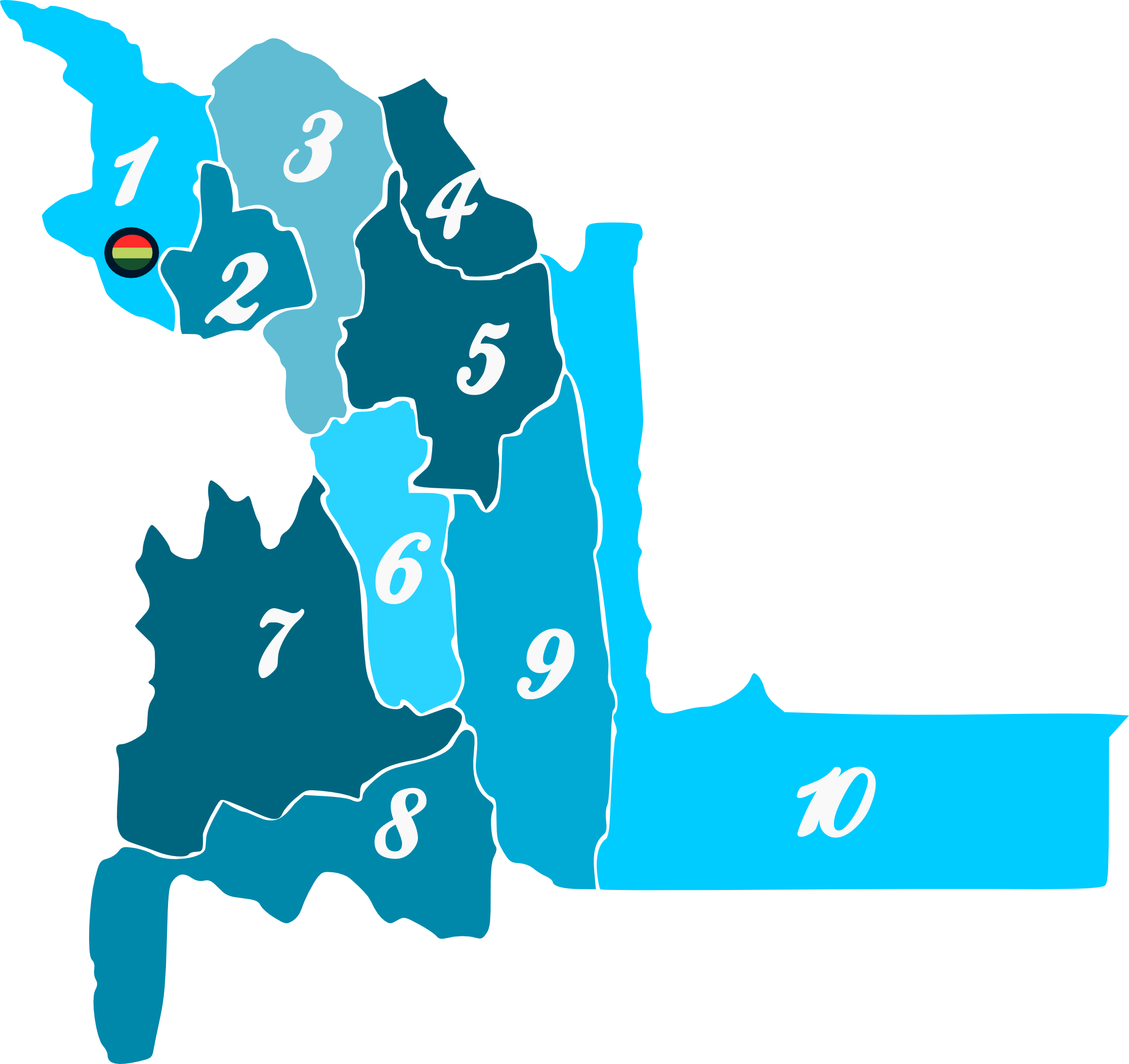 departement map